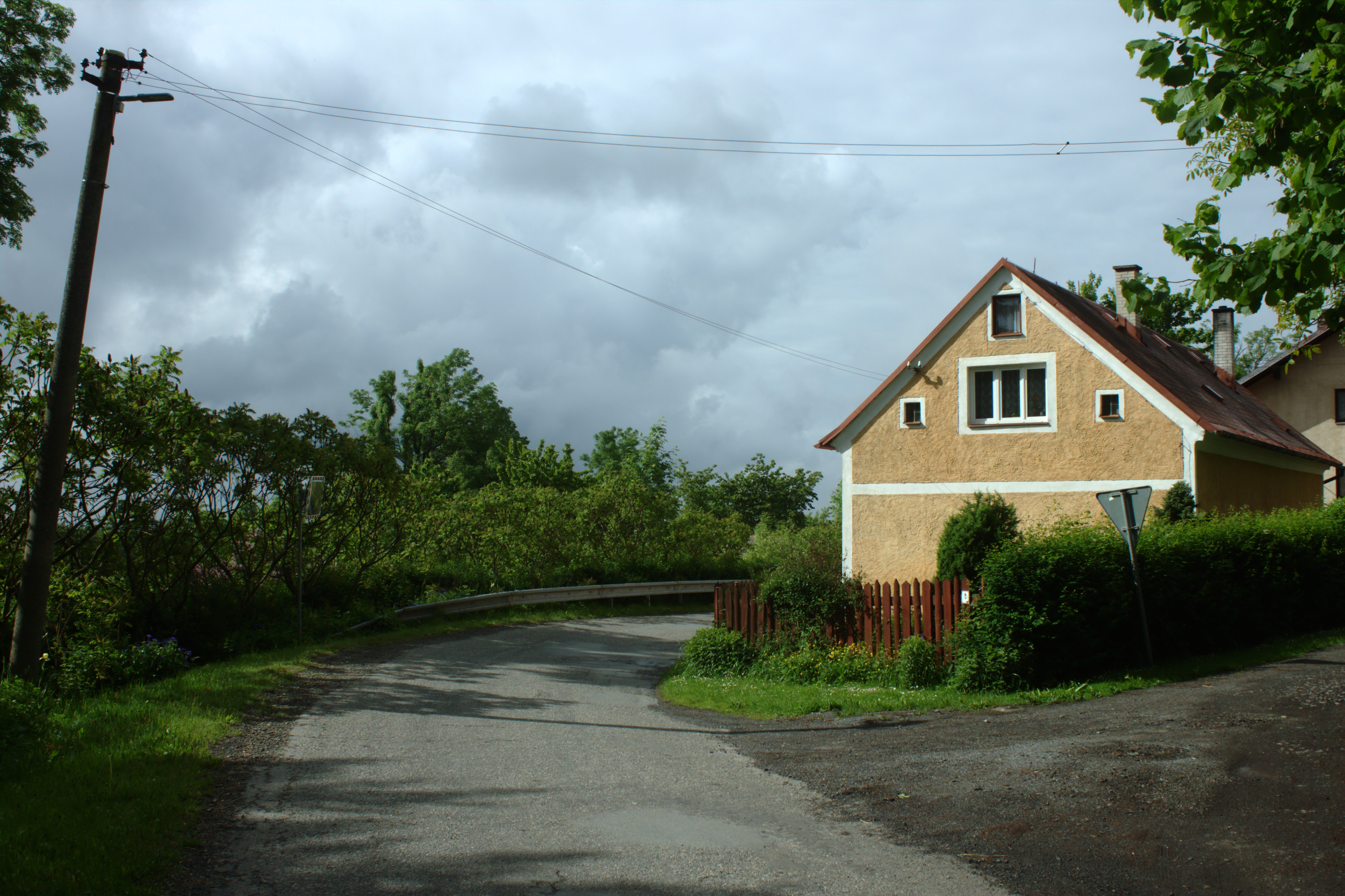 Southern limit of the village of Zádub near Mariánské Lázně, Karlovy Vary Region, CZ